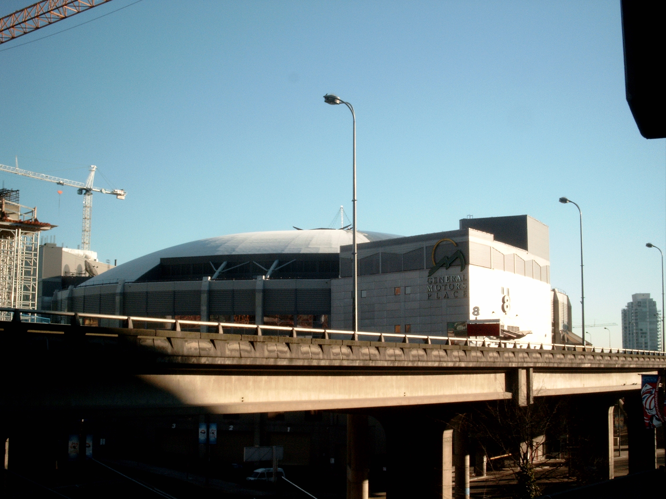 Picture of GM Place taken by me in December 2005.